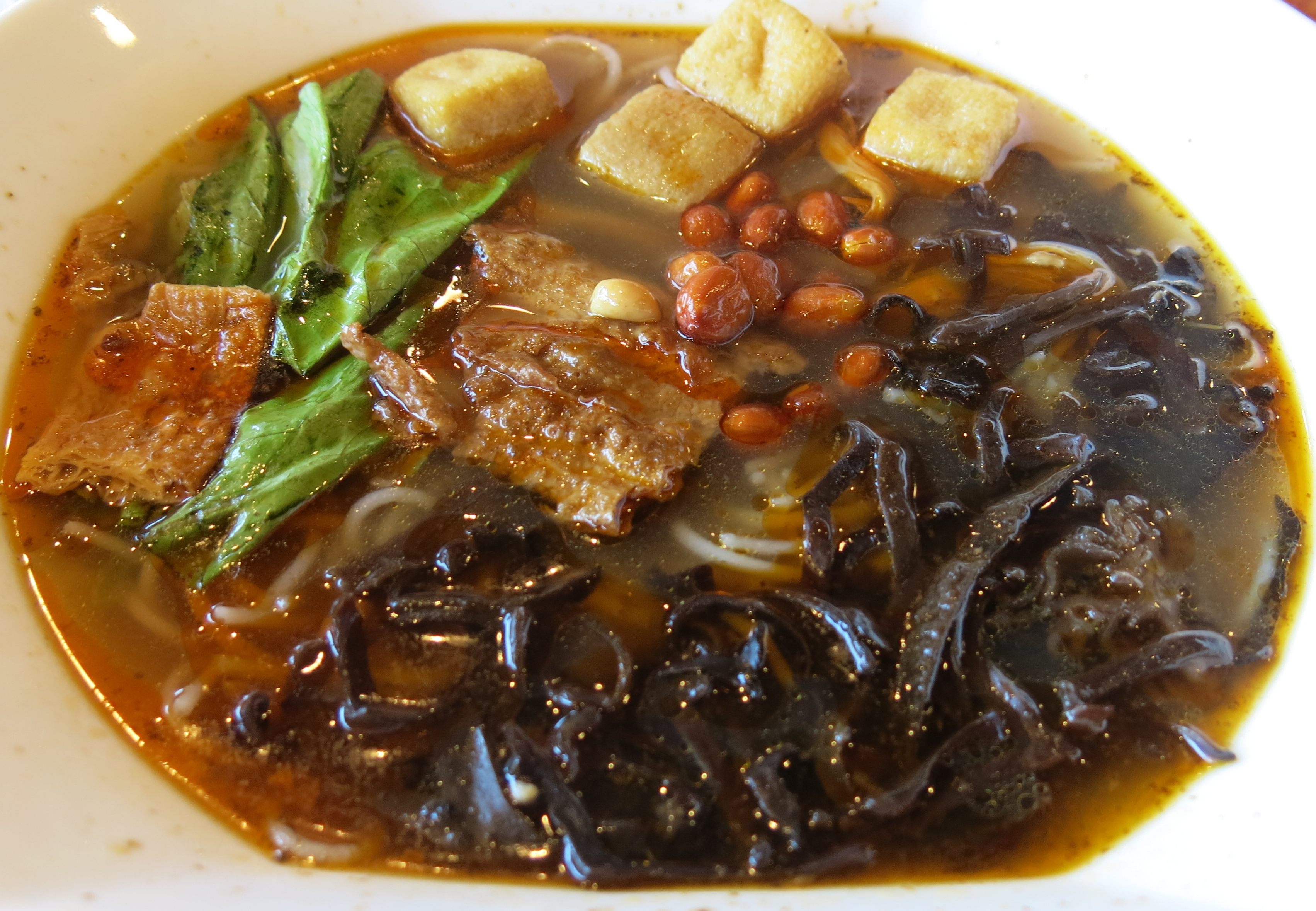 Liuzhou Spicy Snails Rice Noodle at Guilin Classic Rice Noodle, Oakland CA